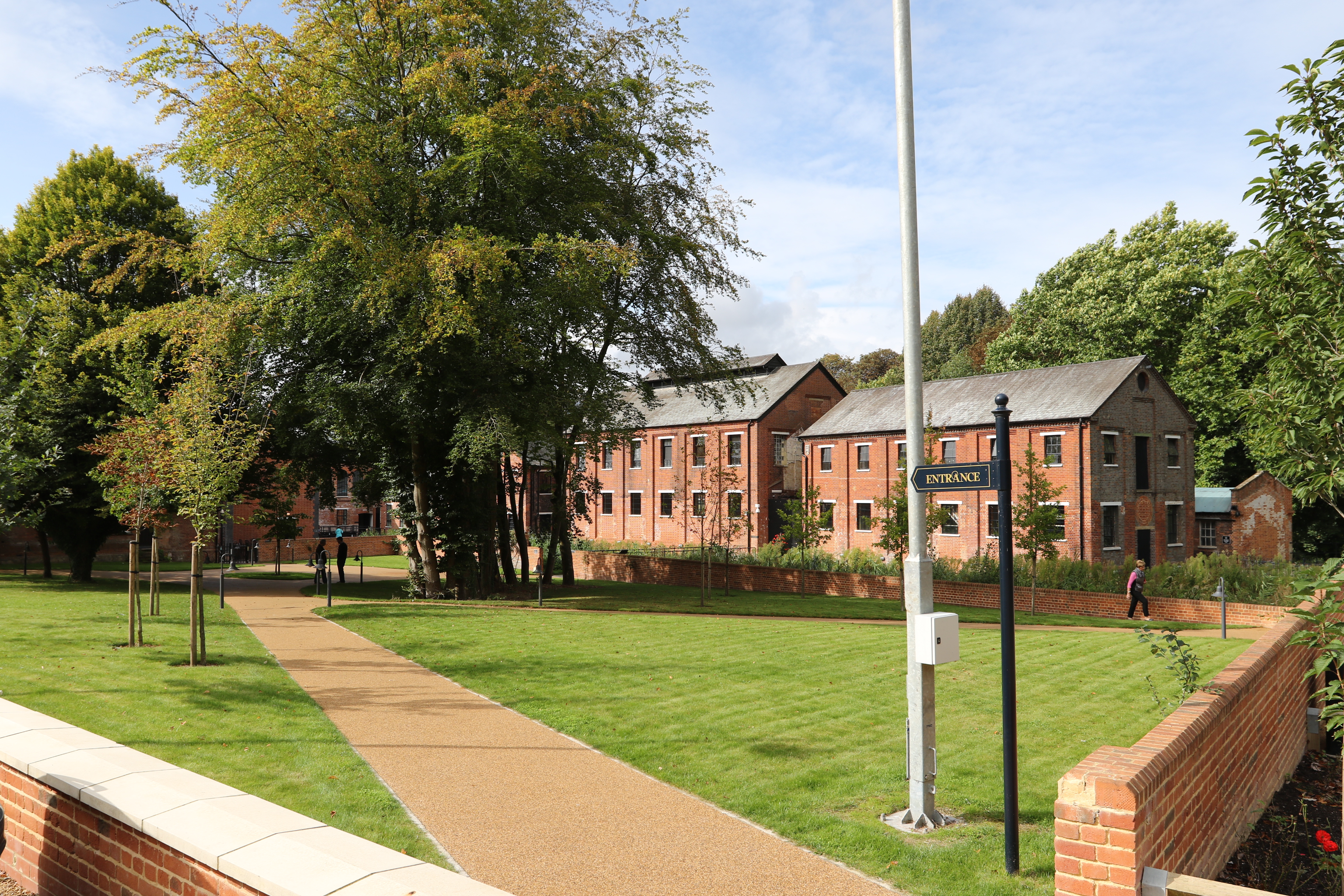 The Bombay Sapphire distillery in Laverstoke, Hampshire